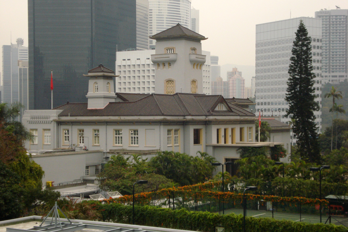 Government House, Hong Kong